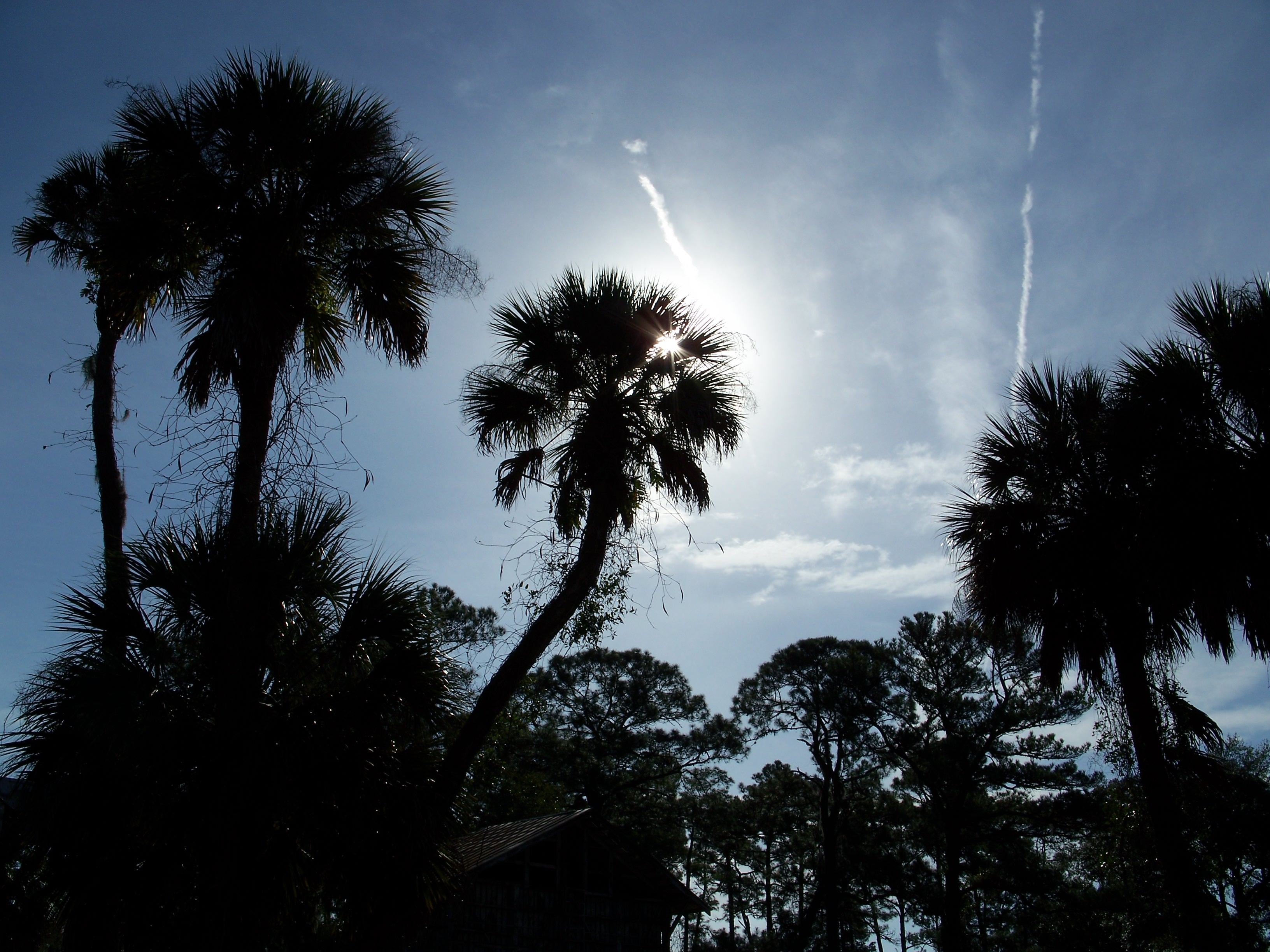 Palm trees silhoutted by the morning sun, Strawn Historic Citrus Packing House District, near DeLeon Springs, Florida